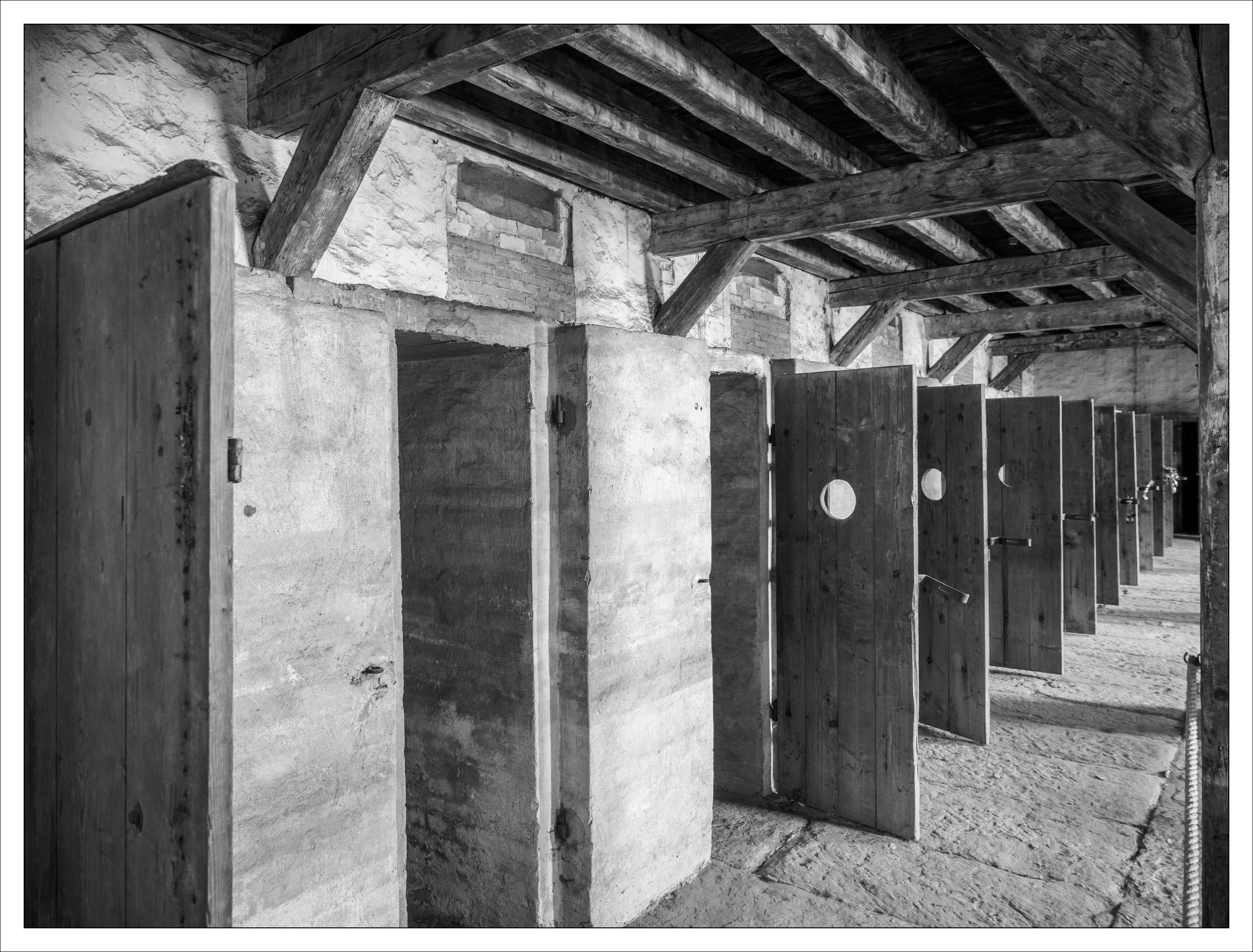 Andreas Manessinger, , Creative Commons BY-SA